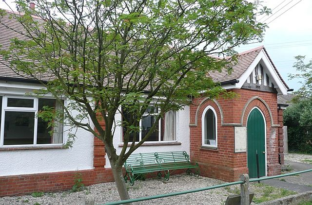 Village Hall Leckhampstead village hall, constructed in 1910. The committee will need to start thinking about centenary events soon.